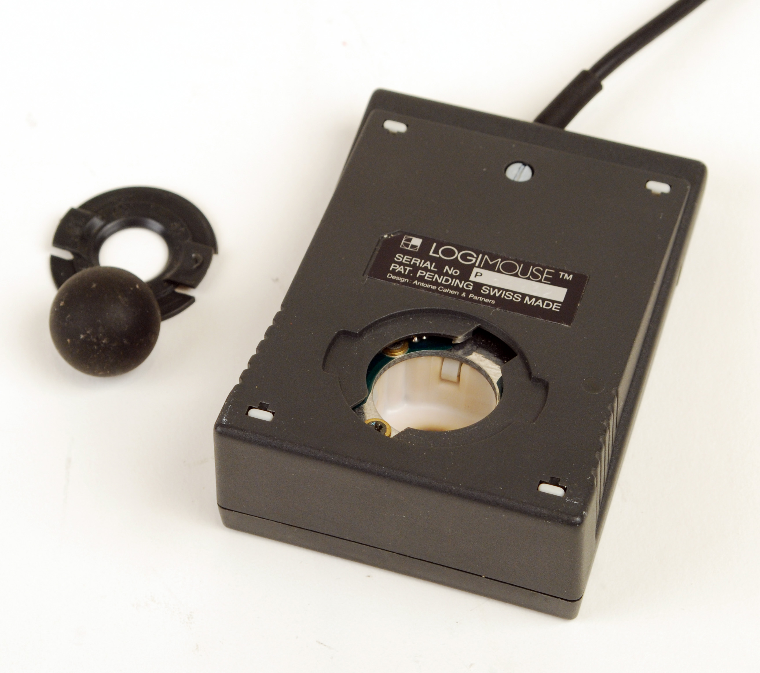 The LogiMouse (1983) was Logitech's second generation mouse and was sold to computer manufacturers for $99 each. It was designed by Anoine Cahen and had a resolution of 200 steps per inch. InfoWorld August 8, 1983, Page 21.